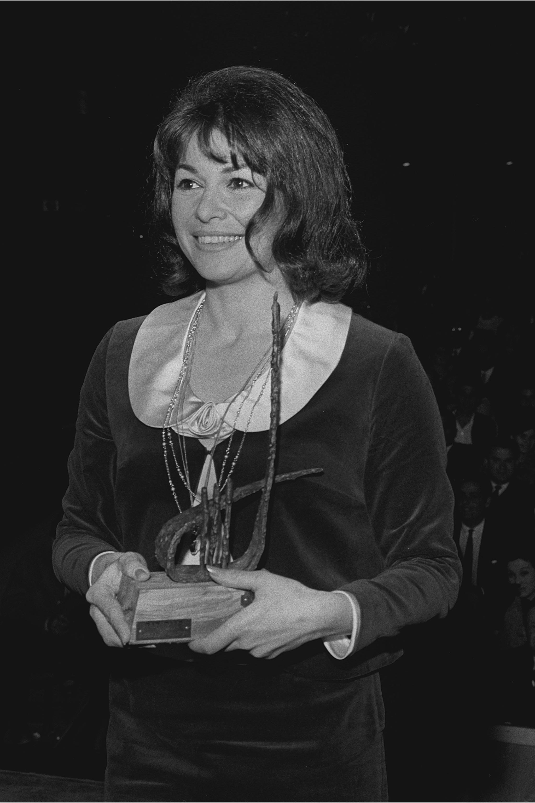 THE 1964 "KINOR DAVID" AWARD, HELD AT THE "CAMERI" THEATRE. IN THE PHOTO, BEST MOVIE ACTRESS GILA ALMAGOR.